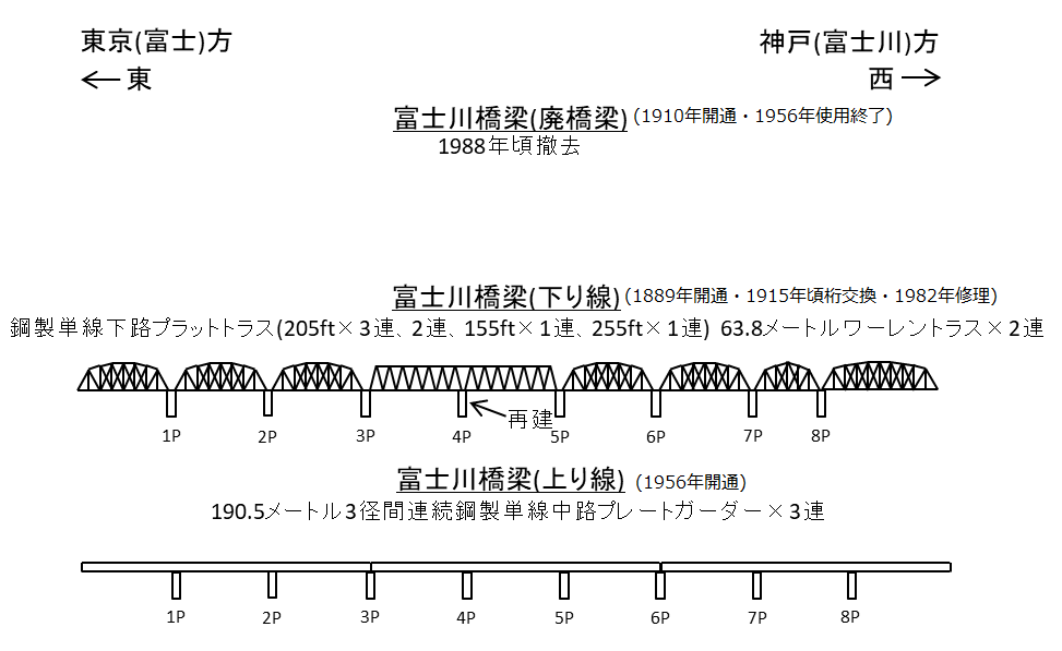 Description figure of repaired Fujikawa railway bridge on Tokaido mainline.